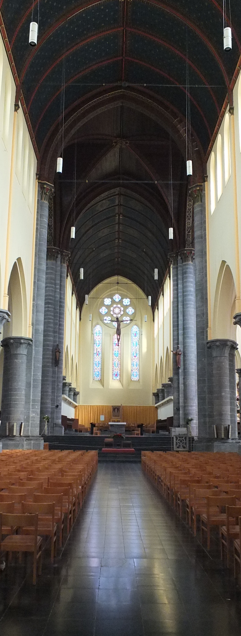 The church of Maredsous Abbey in Denée (Anhée), Namur, Wallonia, Belgium. De kerk is een bedevaartsoord ter ere van de Heilige Benedictus.